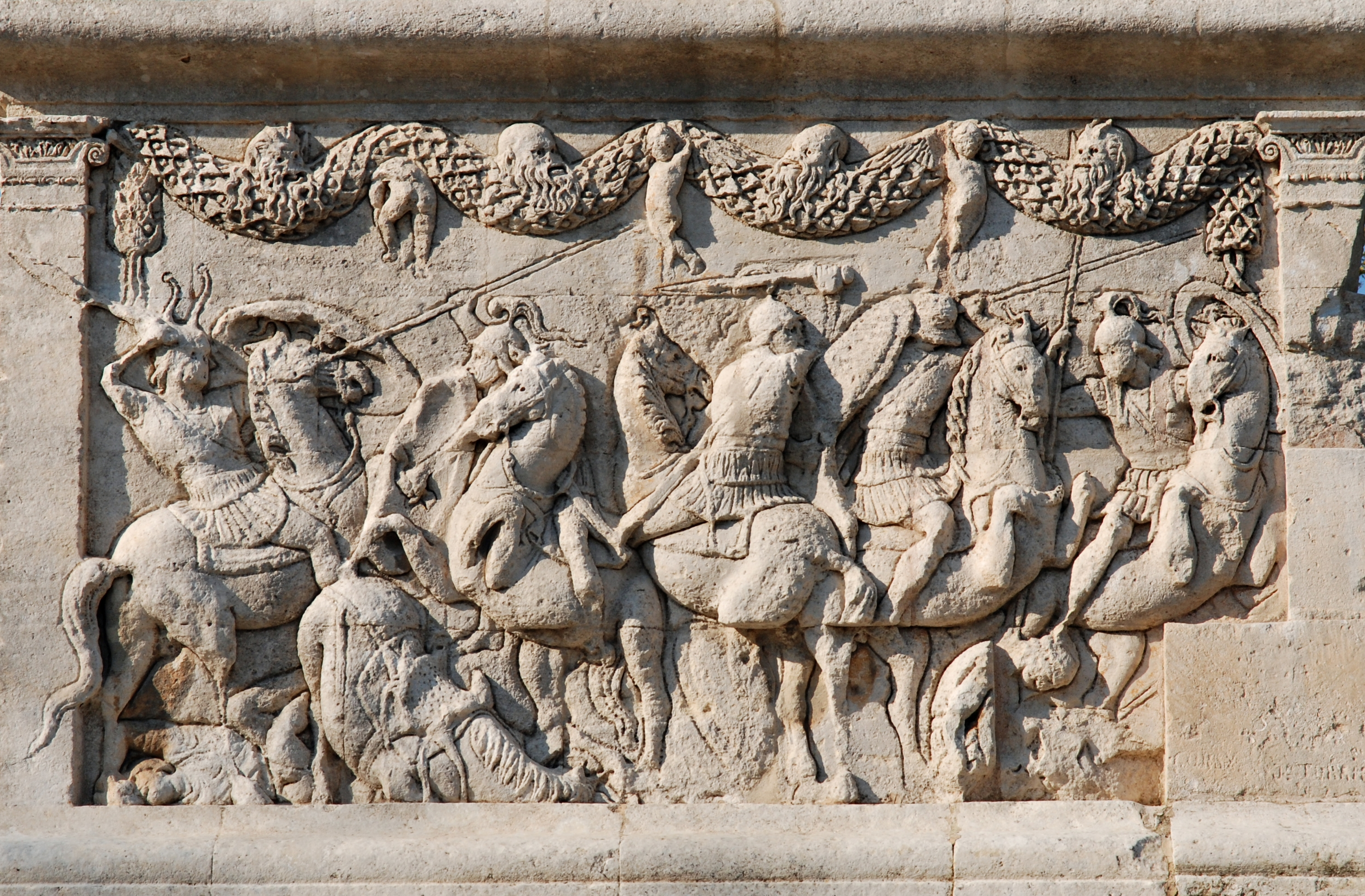 Mausoleum, Glanum, Saint-Remy-en-Provence